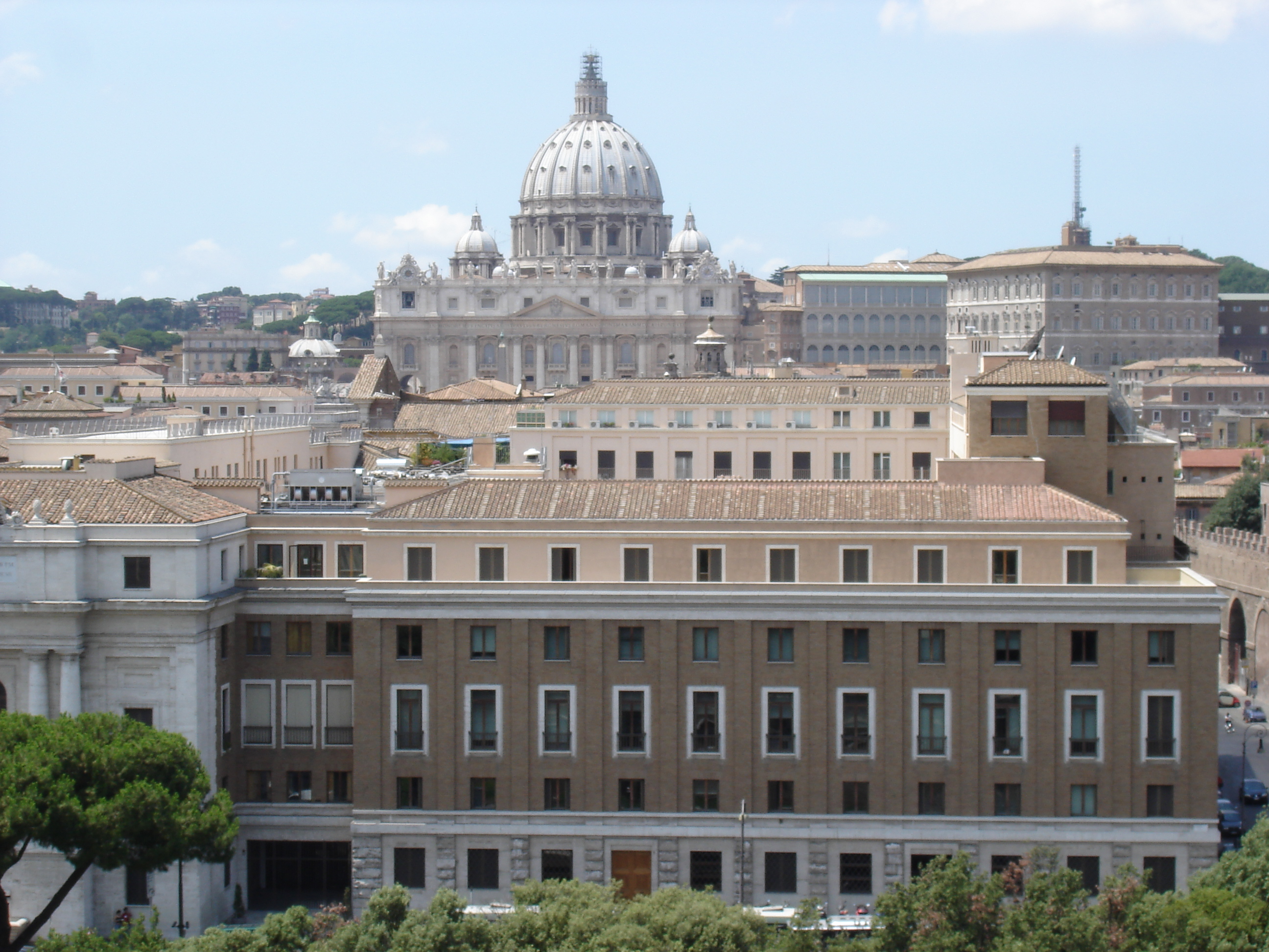 Rome in July